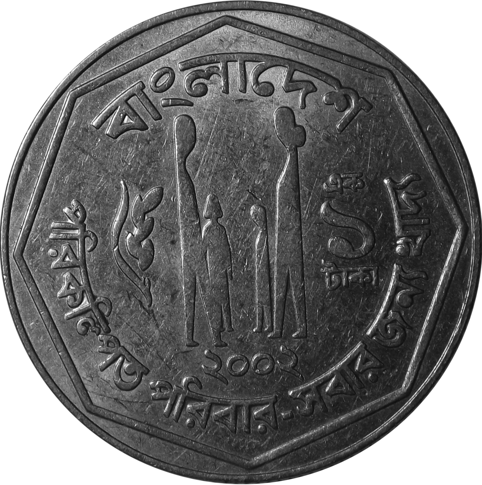 One Taka (Bangladeshi coin) 2002 reverse